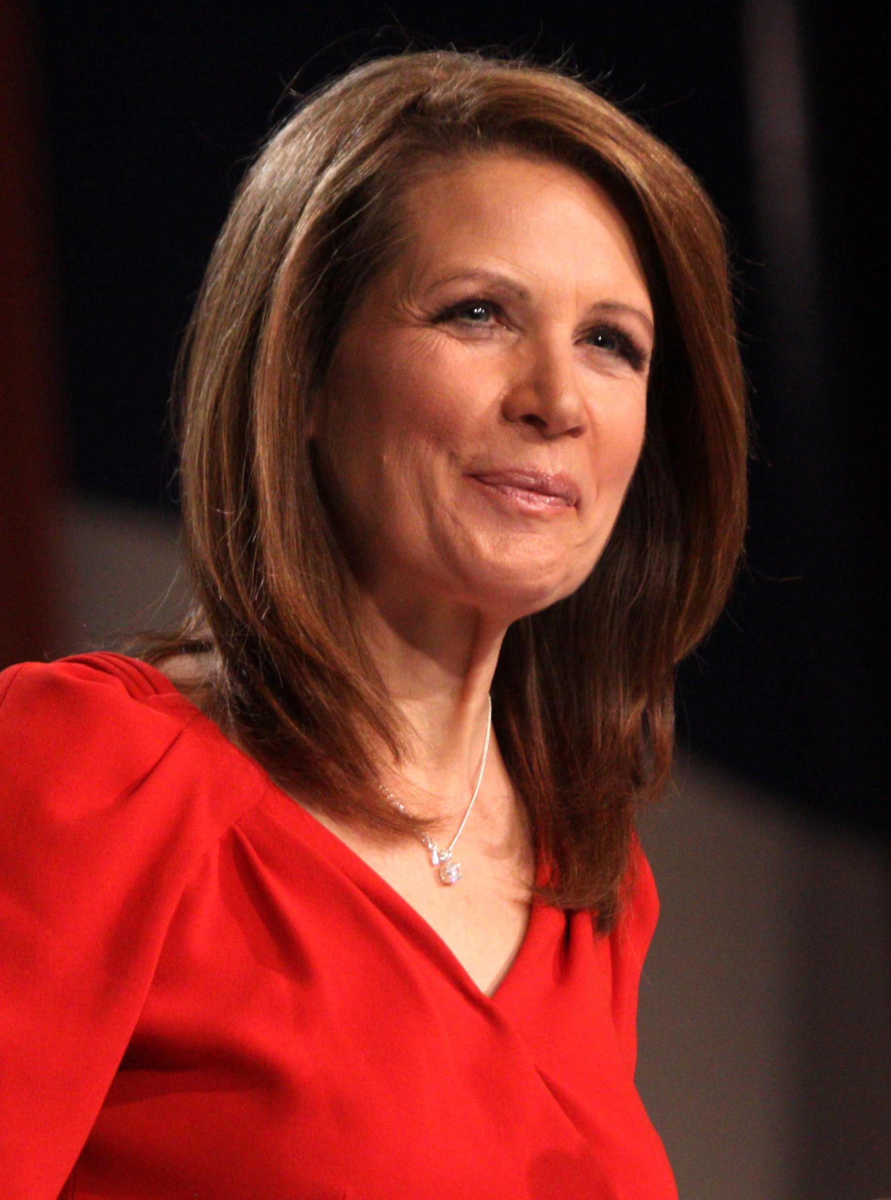 Michele Bachmann speaking at the Values Voters Summit in Washington, DC in October 2011.